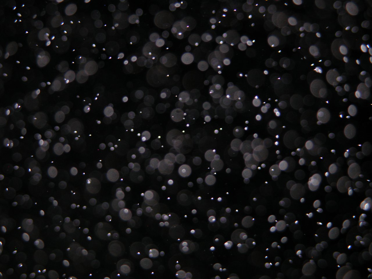 Minute particles of water constitute this after dark radiation fog in Oregon with the ambient temperature -2 °C. High speed photo of File:FogParticles.jpg.